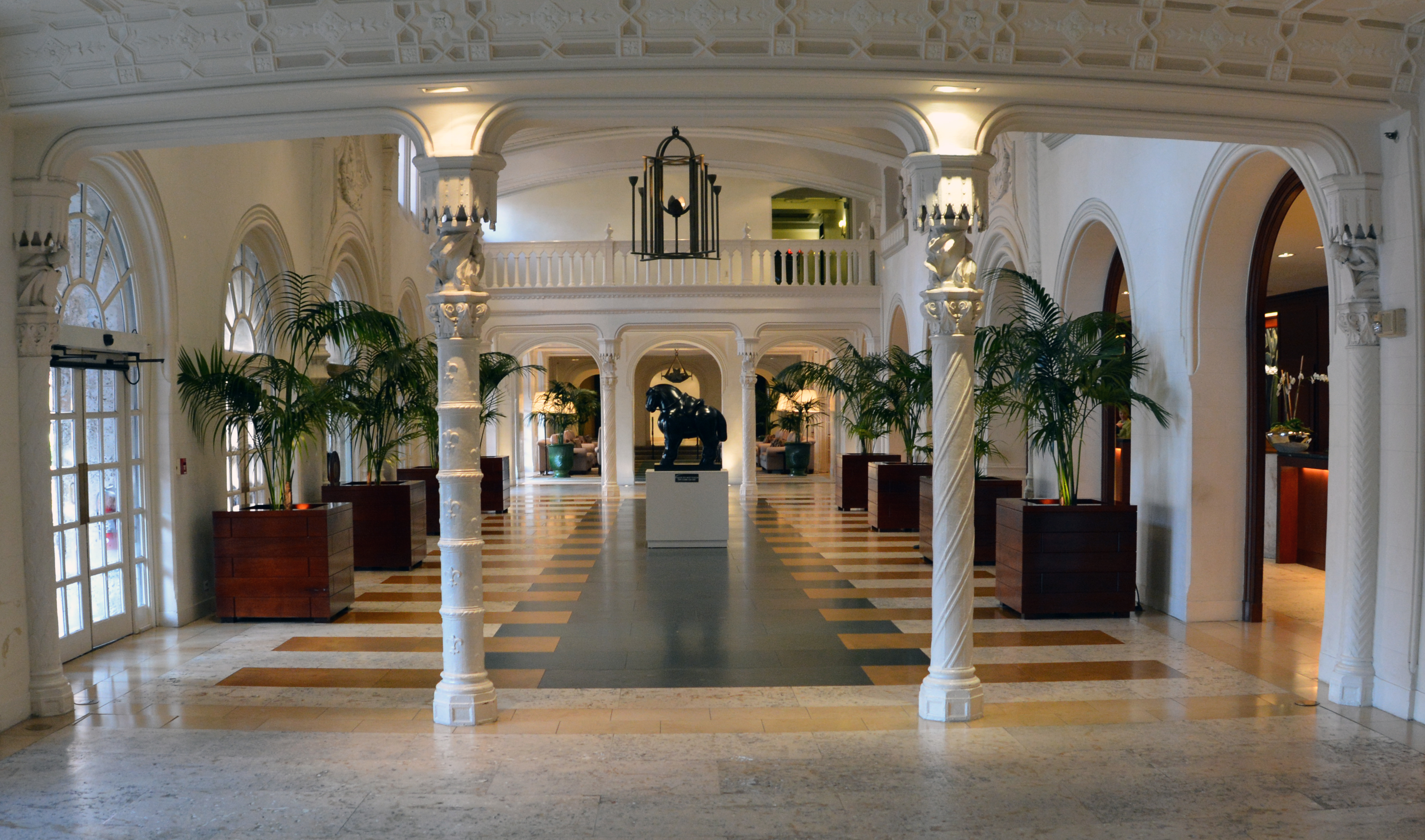 Boca Raton resort interior photo D Ramey Logan